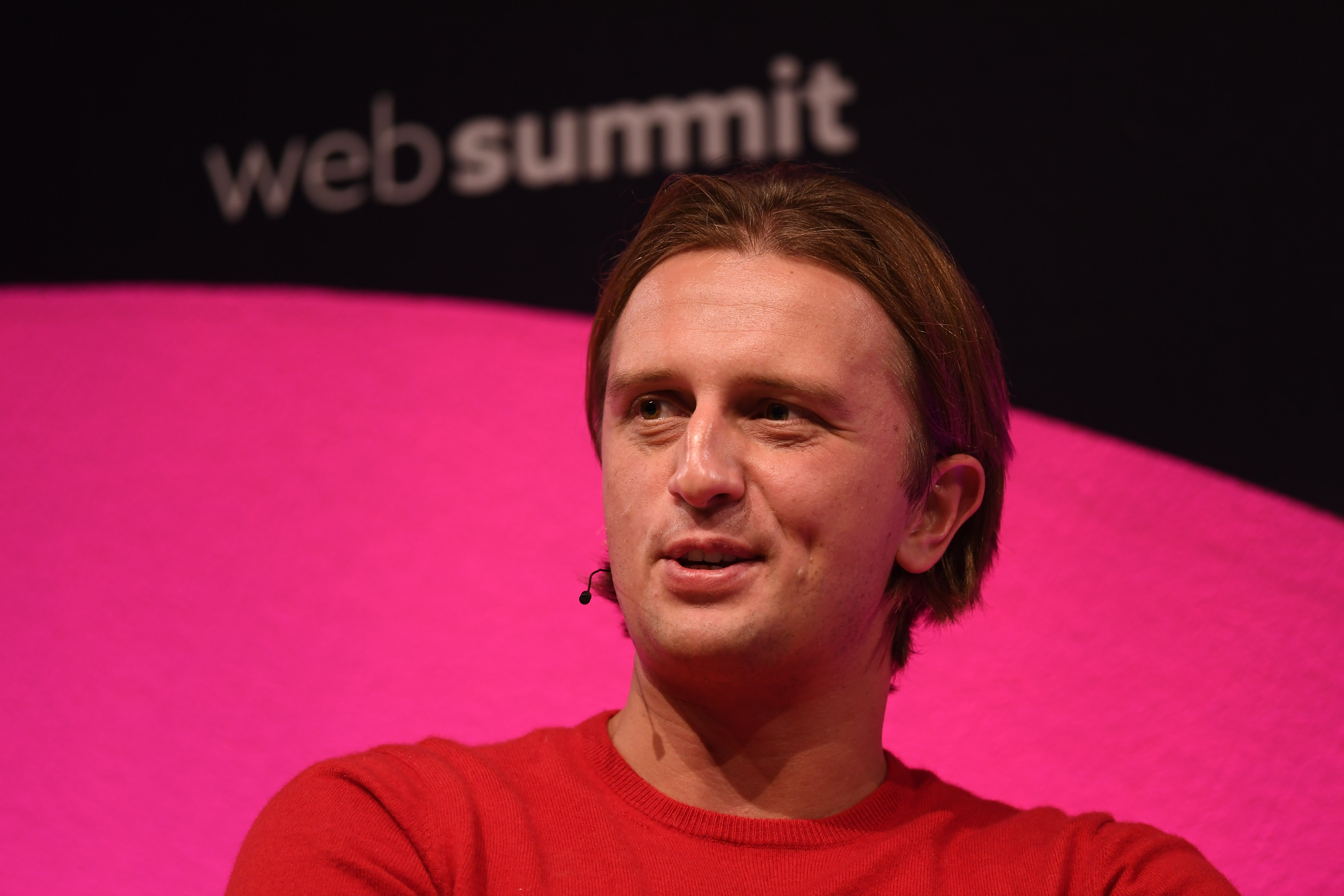 Nikolay Storonsky during the opening day of Web Summit 2017 at Altice Arena in Lisbon